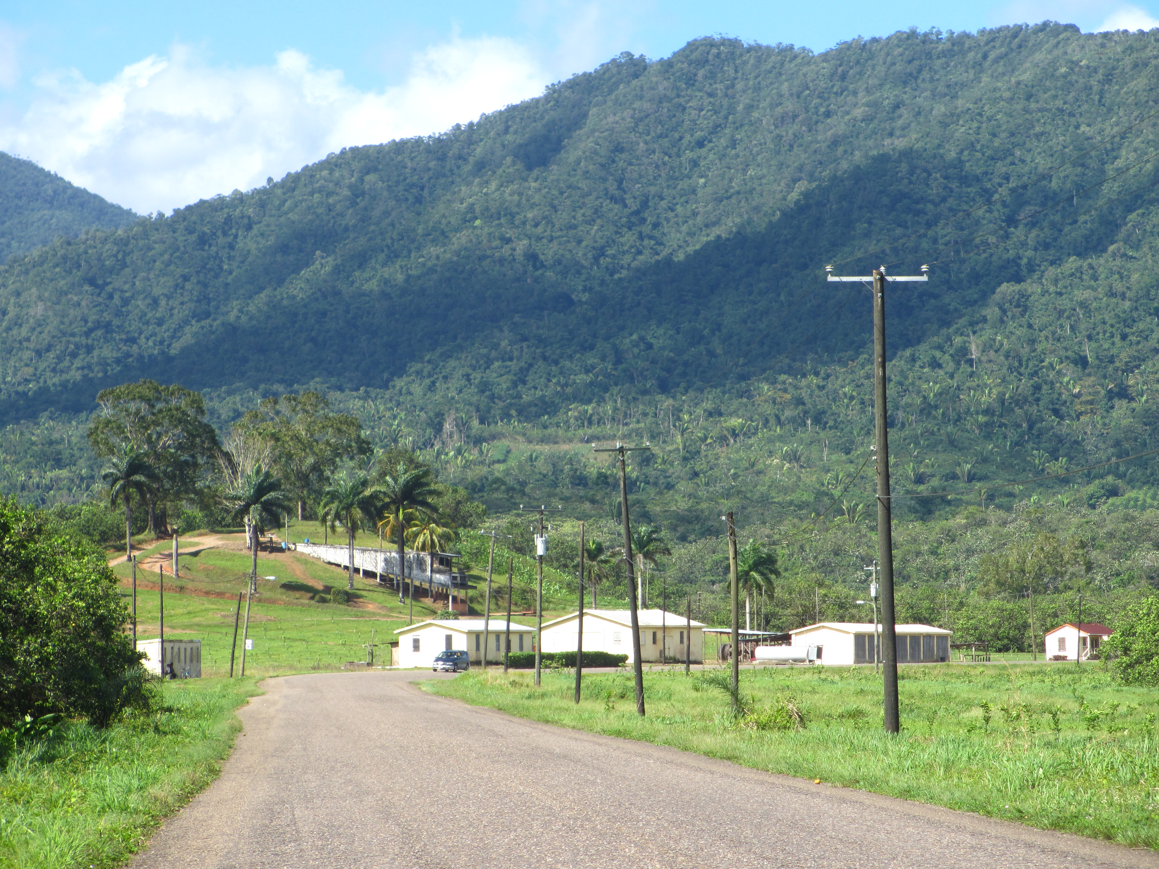 Maya Mountains in the village of Middlesex along the "Hummingbird Highway"